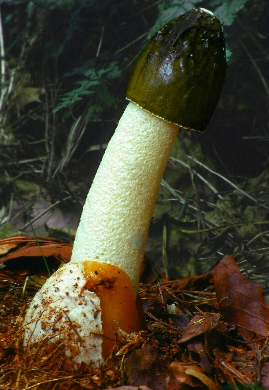 This image is the work of photographer Zonda Grattus, aka User:luridiformis. He is the sole owner and copyright holder of this photograph, and holds the original 35mm slide. He agrees to publish it under the Own Work, Creative Commons Attribution 3.0 License.